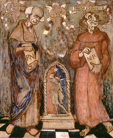 A satirical cartoon of Vincent Massey marking his appointment as Canadian minister to the United States.